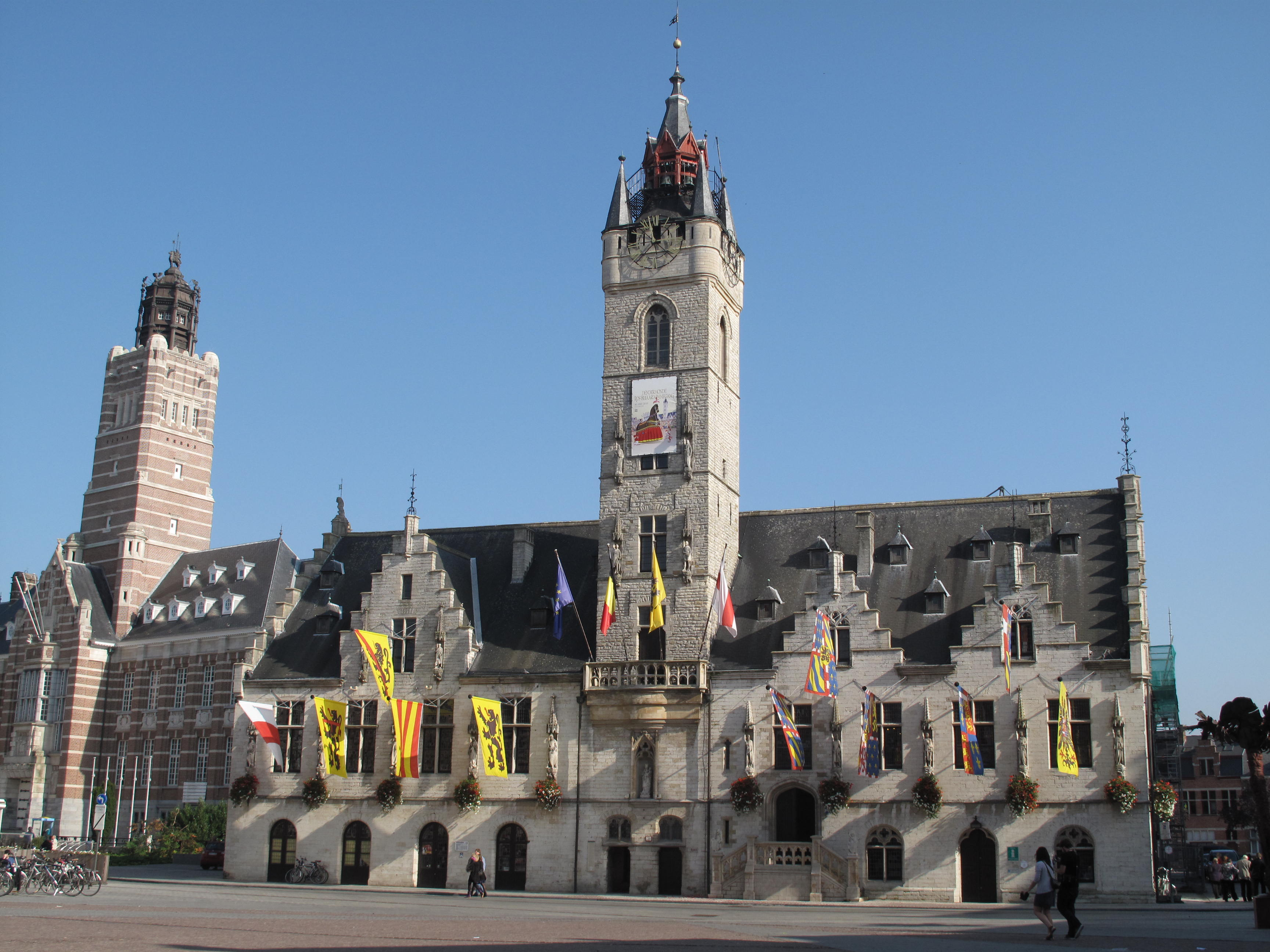 Dendermonde, town hall